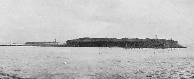 Odaiba in 1950s